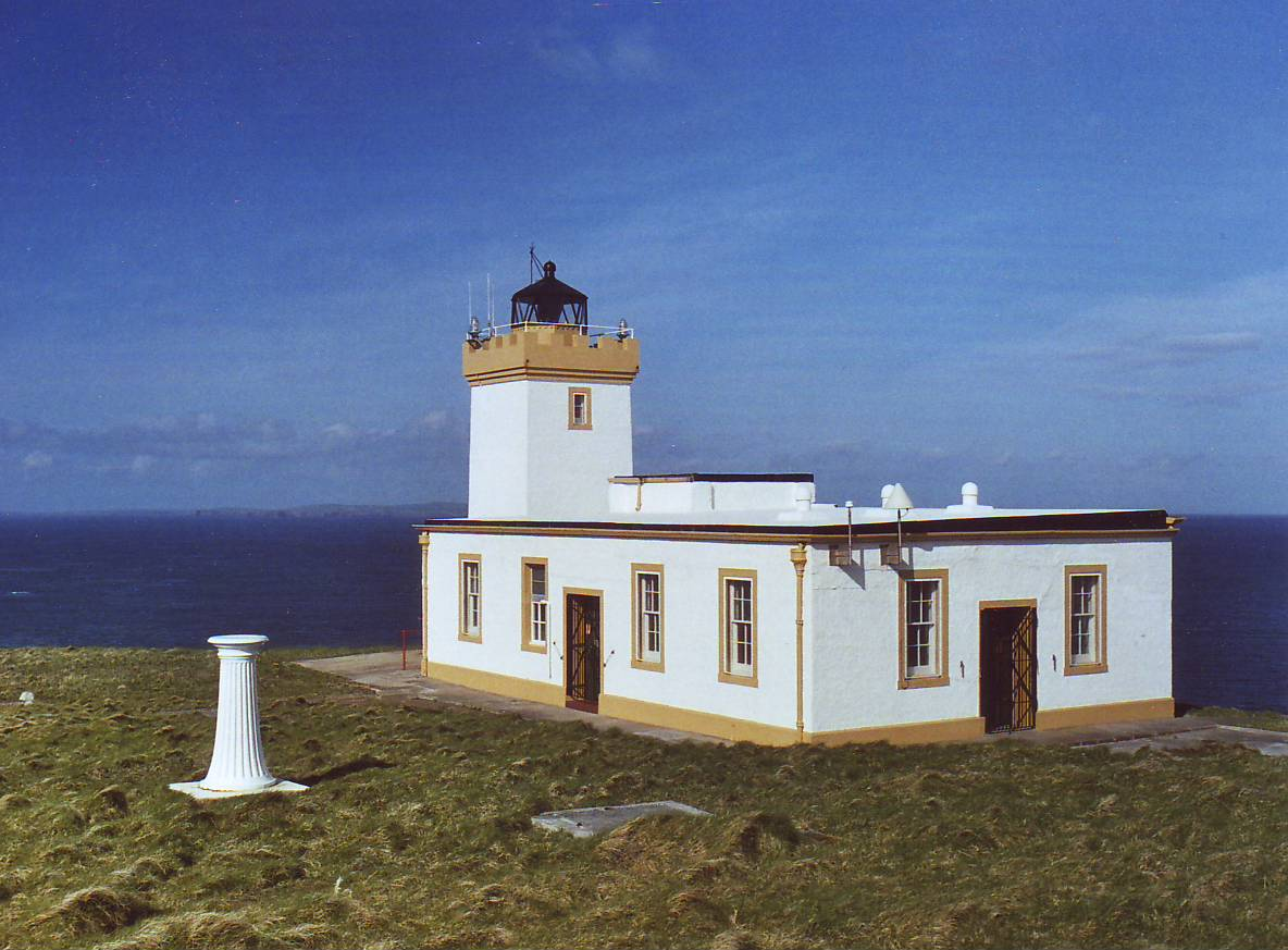 Author: Russ McLean. Fair Use & Wikipedia Reproduction Authorised.